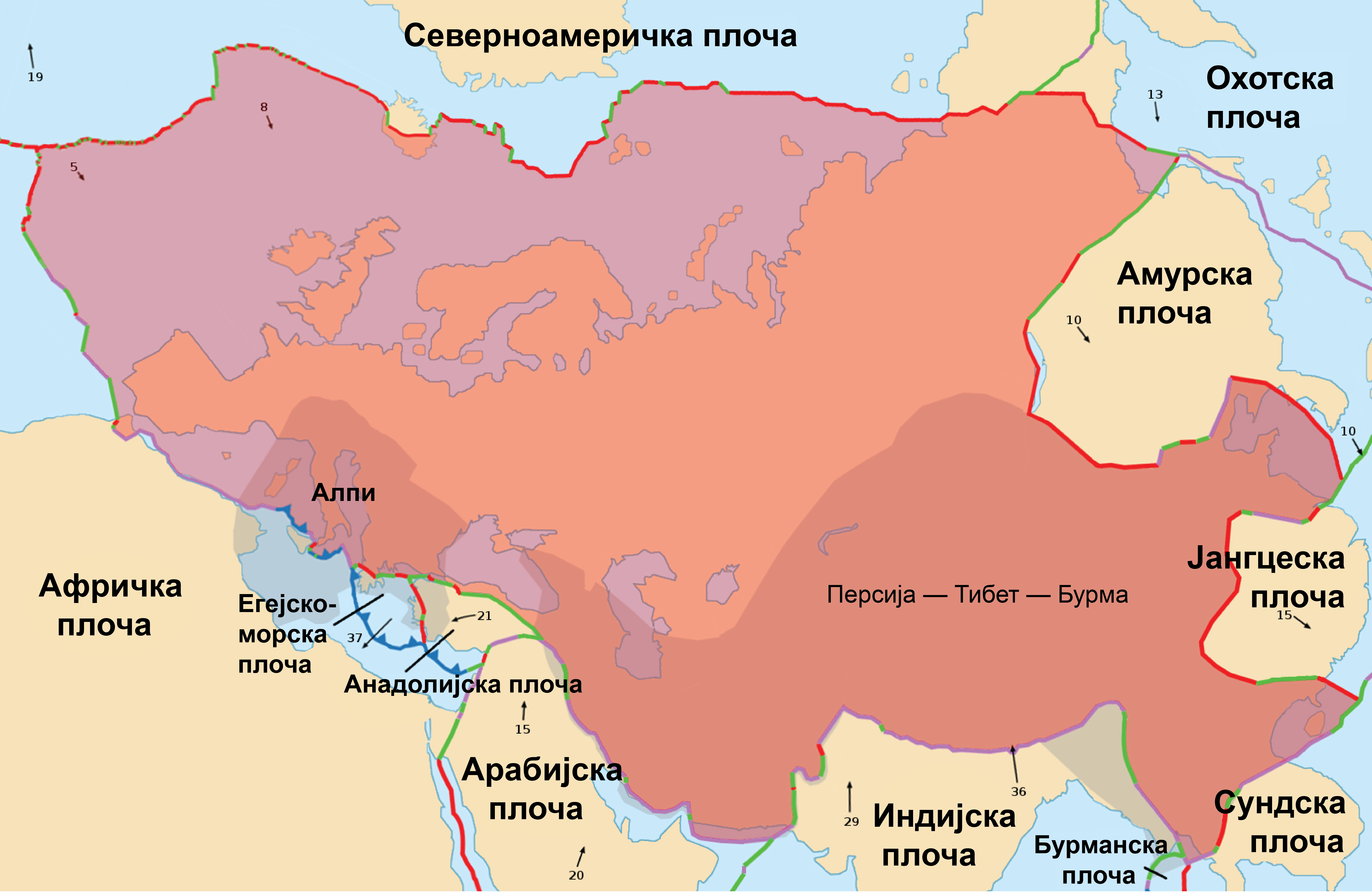 A map of the Eurasian plate